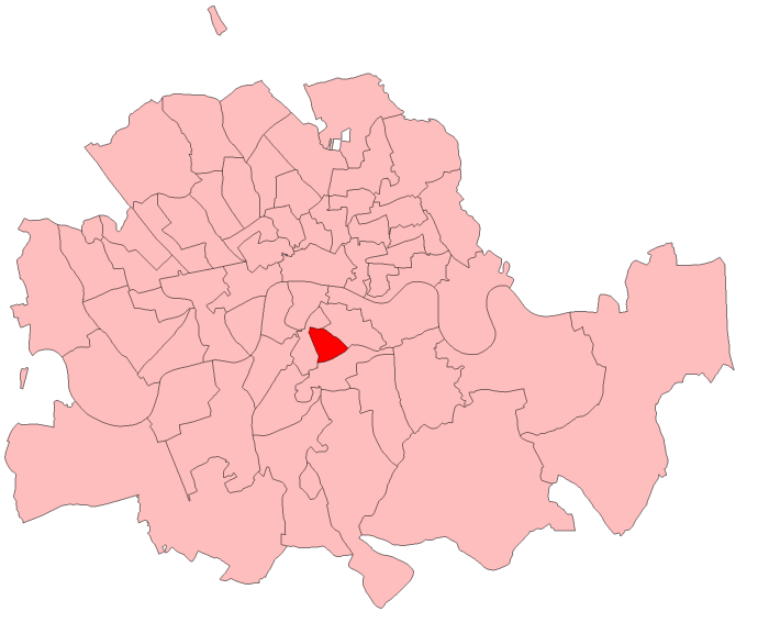 A map of Walworth constituency within the Metropolitan Board of Works area, as it existed from 1885 to 1918.